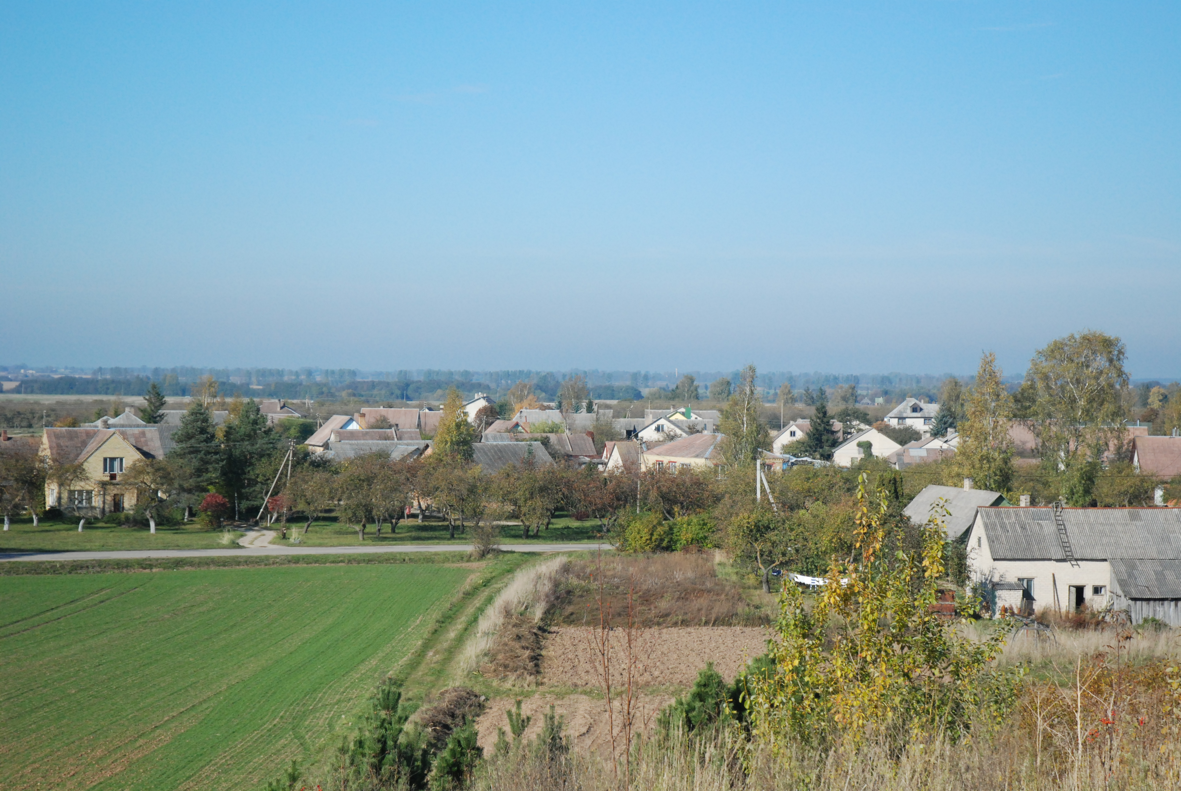 Skaistgirys